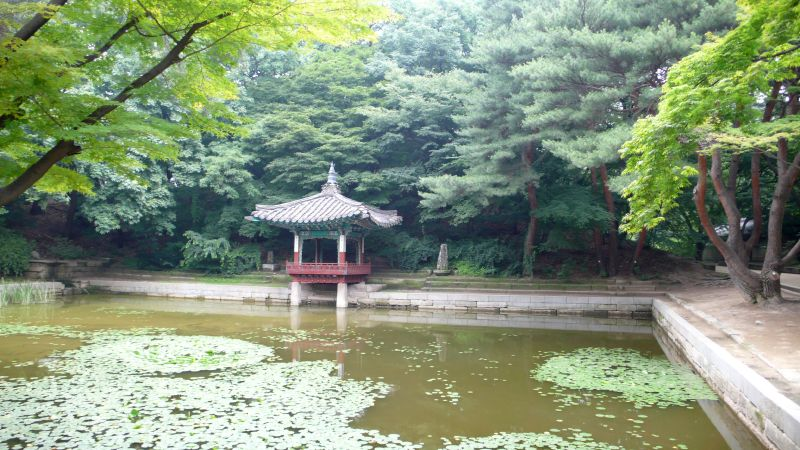 Aeryeonjeong, Korean garden pavilion and pond - Changdeokgung - Seoul